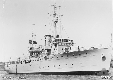 "SYDNEY, NSW. 1941-09. STARBOARD BOW VIEW OF THE CORVETTE HMAS WARRNAMBOOL. SHE IS NOT YET COMMISSIONED AND CONSEQUENTLY FLIES THE RED ENSIGN. SHE IS ARMED WITH A 4 INCH QF MARK XIX GUN ON A CP I MOUNTING FORWARD. NO CLOSE RANGE ARMAMENT HAS YET BEEN FITTED. NOTE THE KITE/OTTERS AND FLOATS OF HER OROPESA MINESWEEPING EQUIPMENT ON THE STERN". NOTE : THe AWM caption incorrectly identifies the gun as BL 4 inch Mk IX.